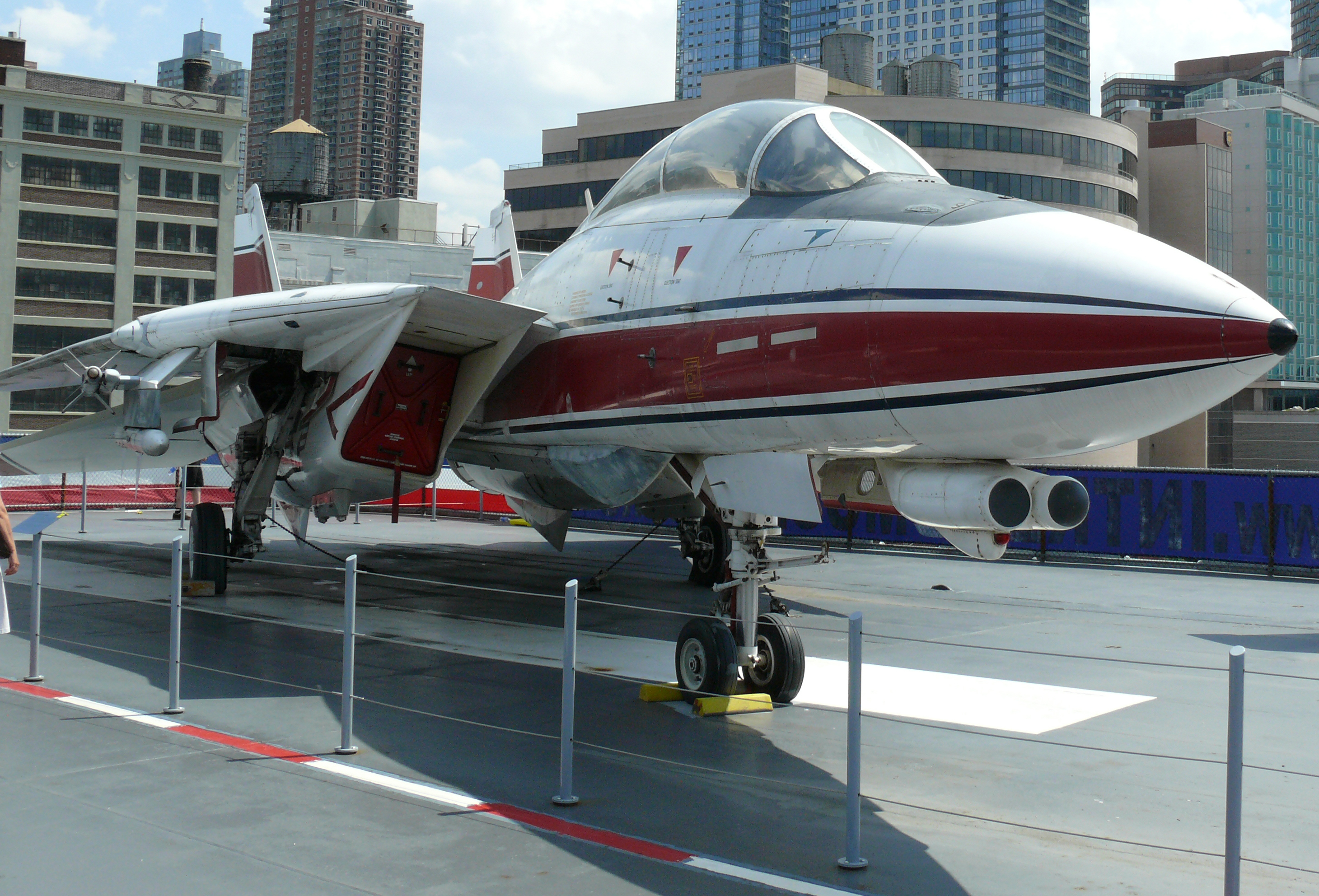 Grumman F-14 Tomcat in the Intrepid Sea-Air-Space Museum. The Grumman F-14 Tomcat is a supersonic, twin-engine, two-seat, variable-sweep wing aircraft. The F-14 was the United States Navy's primary maritime air superiority fighter, fleet defense interceptor and tactical reconnaissance platform from 1974 to 2006. This aircraft (157986), was the seventh Tomcat built by Grumman and was retained as their primary research and development airframe. In 1973, it served as the prototype for the Super Tomcat series, which incorporated more powerful engines.